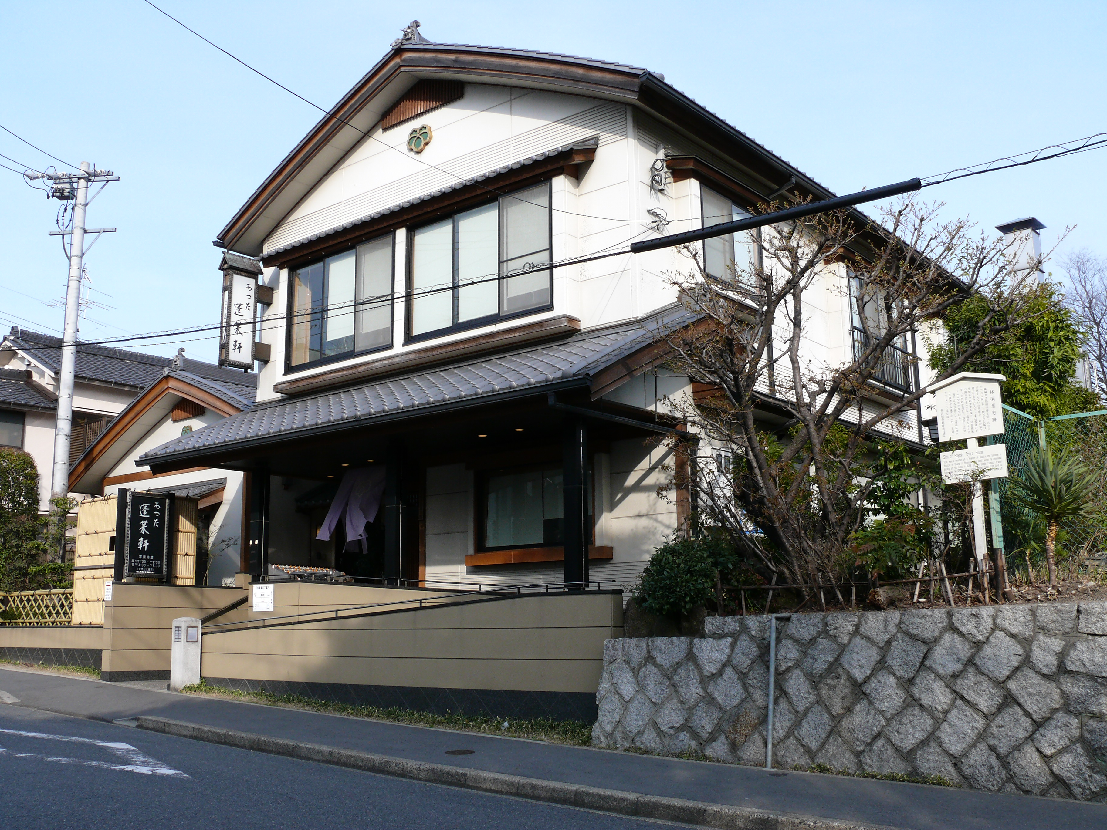 Atuta Houraiken.